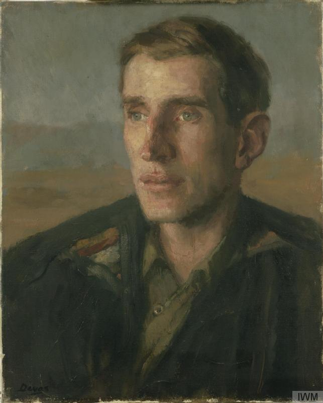 Head & shoulders portrait of Wilfred Thesiger